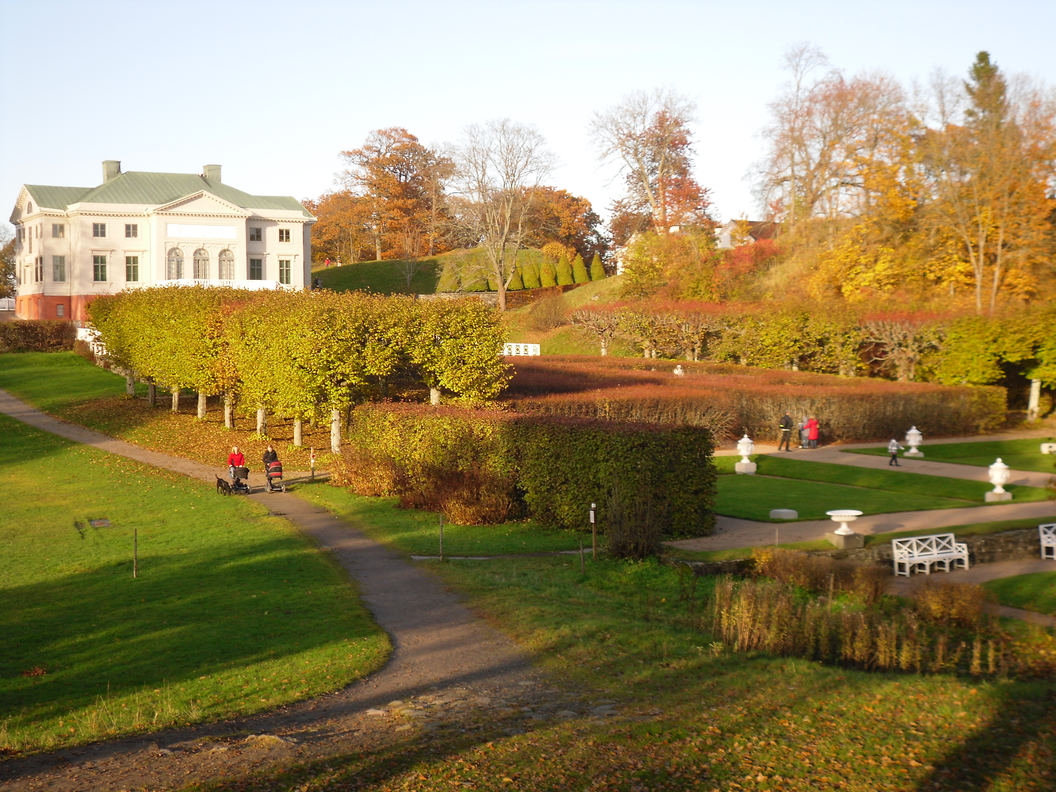 Gunnebo House, southern gardens, Mölndal, Sweden.